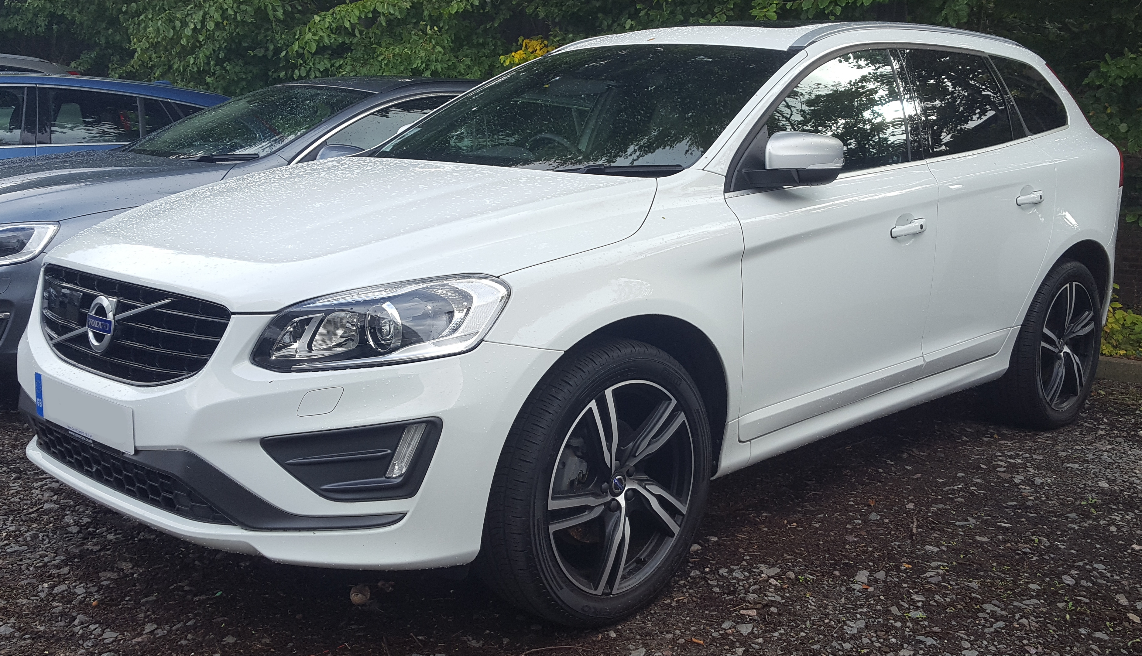 2016 Volvo XC60 R-Design D5 2.4 Taken in Leamington Spa